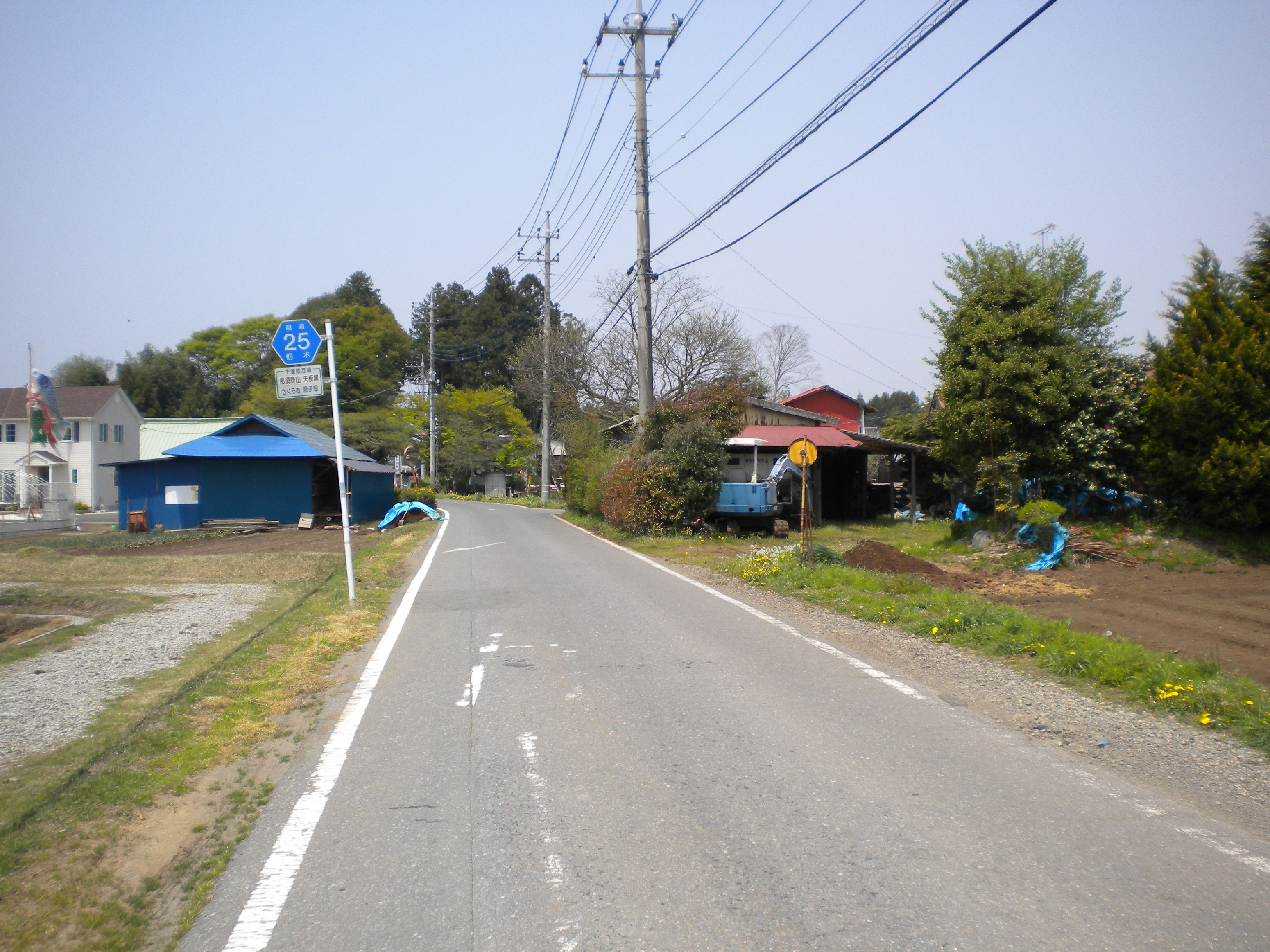 The Tochigi Prefectural Road Route 25 in Kanokohata, Sakura City